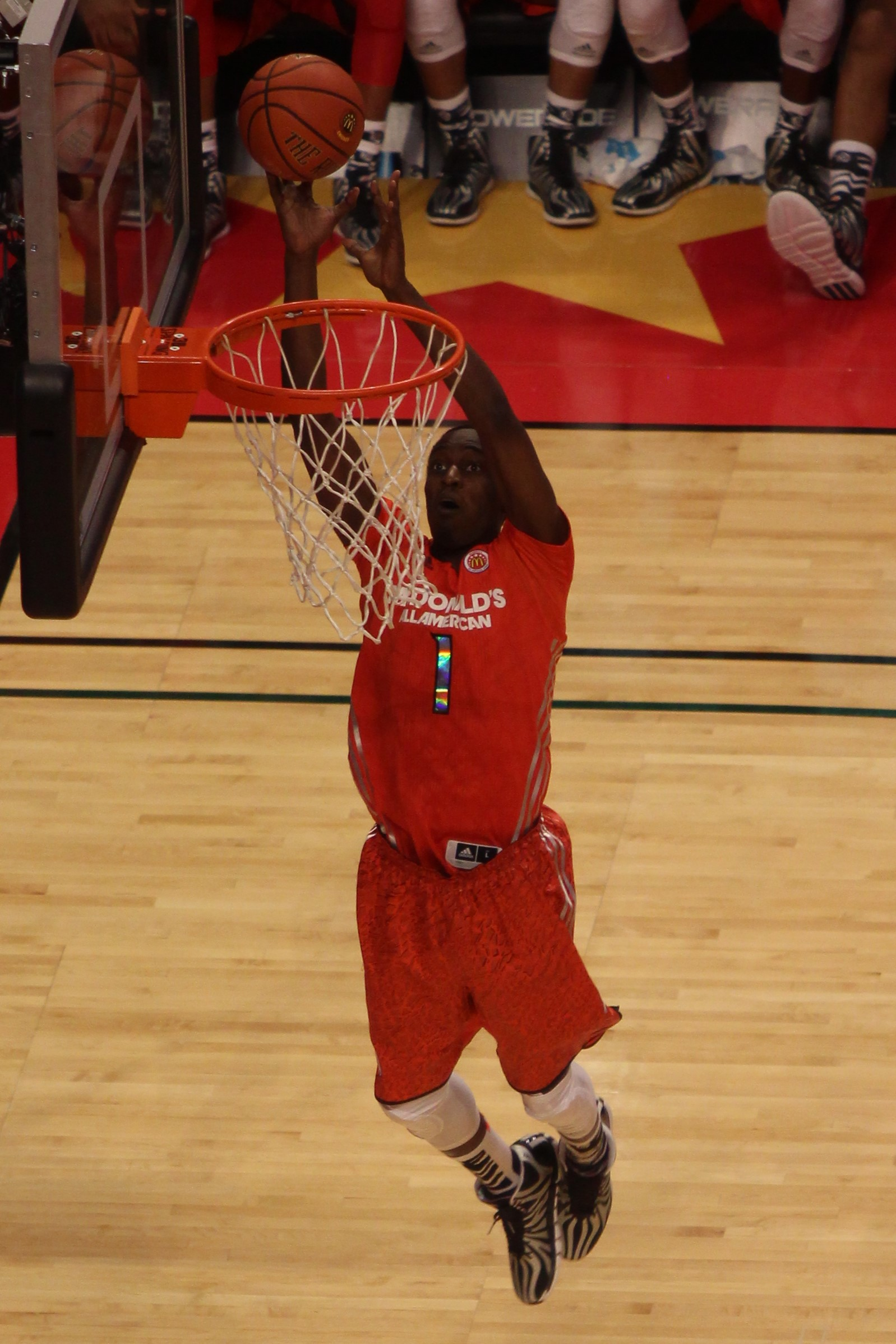 Theo Pinson in the w:2014 McDonald's All-American Boys Game